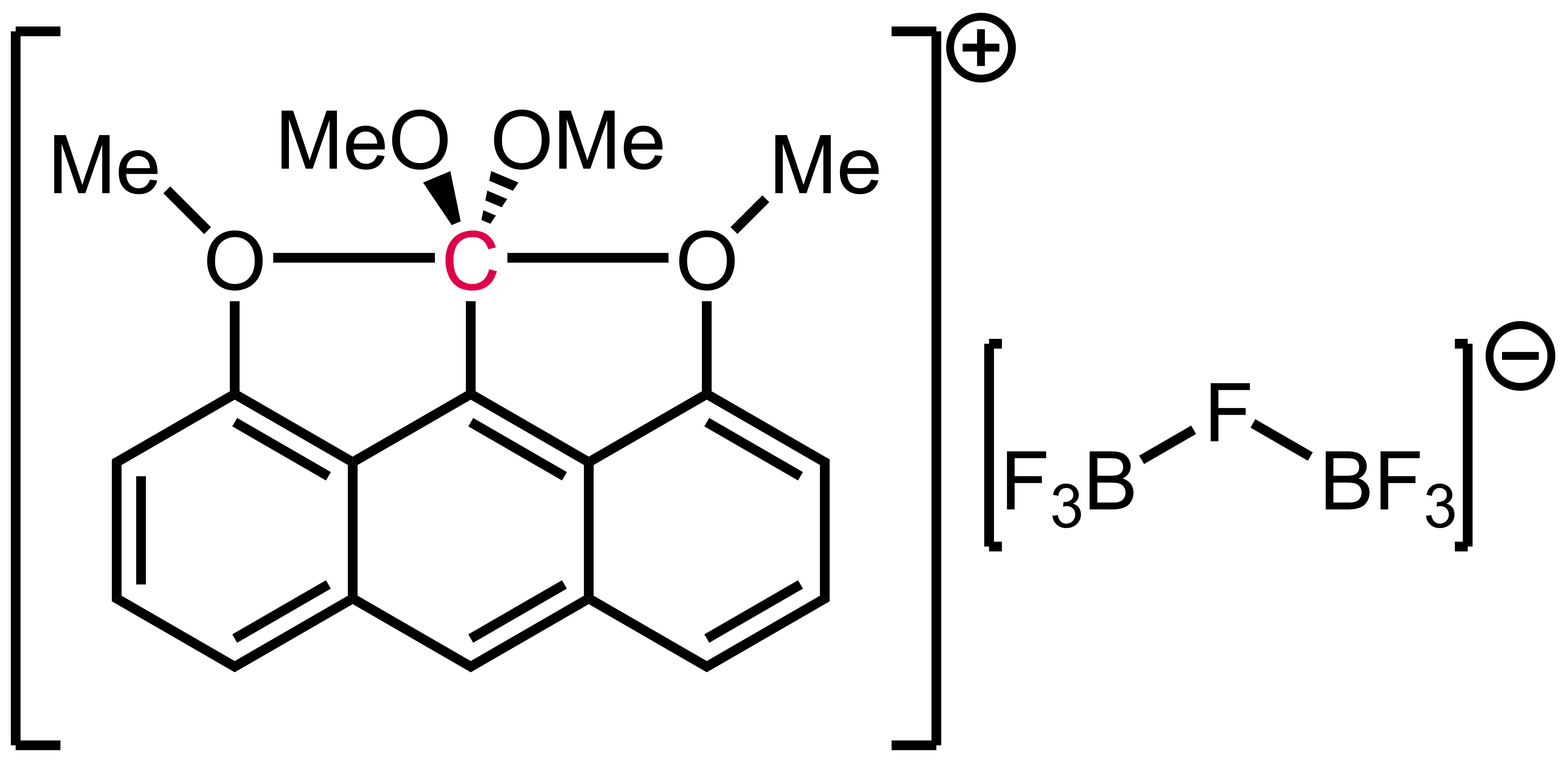 depiction of a carbon with 5 bonds around it.